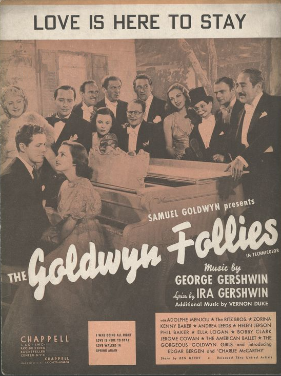 Cover of the sheet music for George and Ira Gershwin's "Love Is Here To Stay" from the film The Goldwyn Follies (1938)